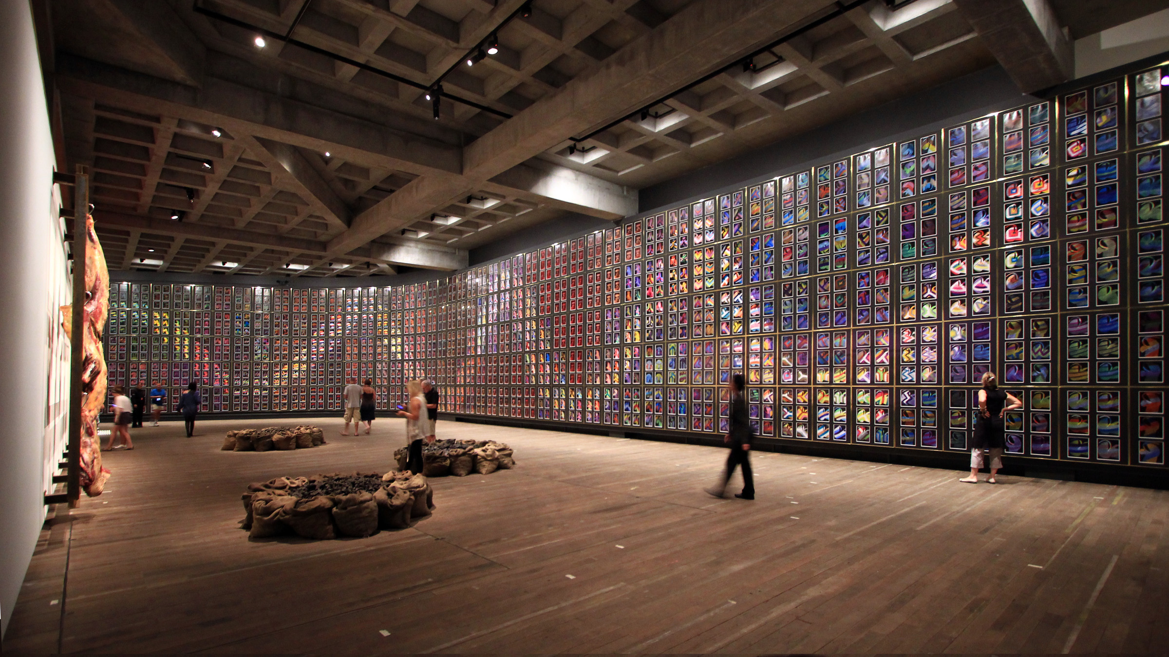 "Snake" by Australian artist Sidney Nolan, is the centerpiece of the Museum of Old and New Art, in Hobart, Tasmania.